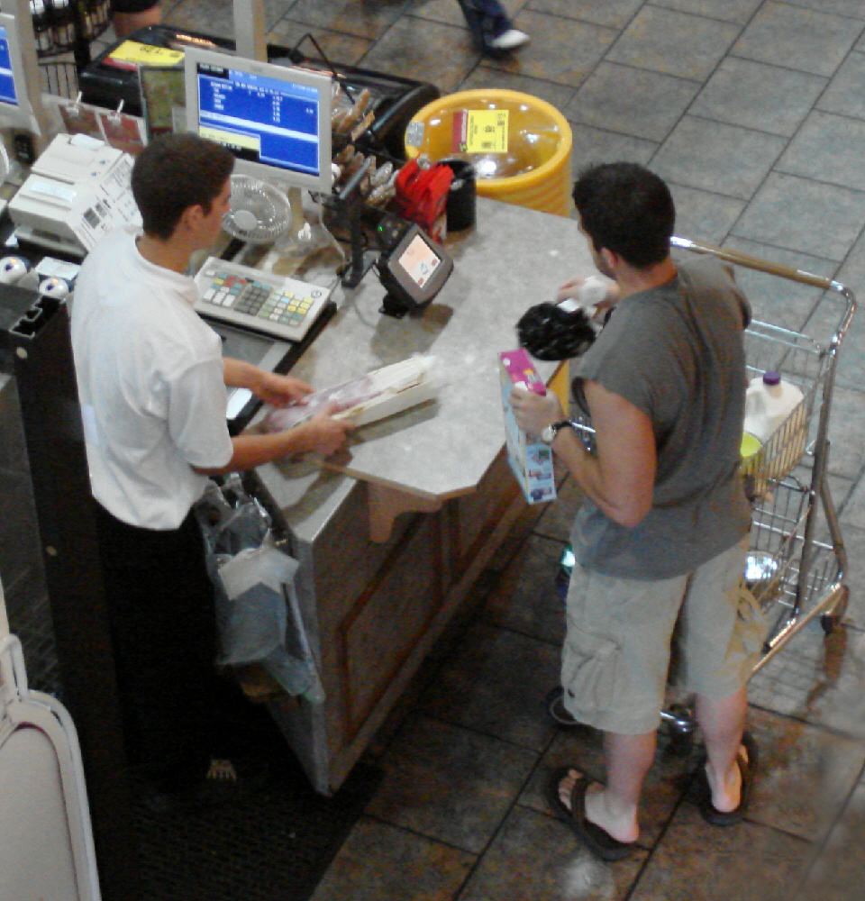 Cash register in a supermarket